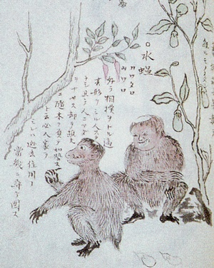 Kenmon (ケンモン, the spirit of banyan) from the Nantō-Zatsuwa (南島雑話)